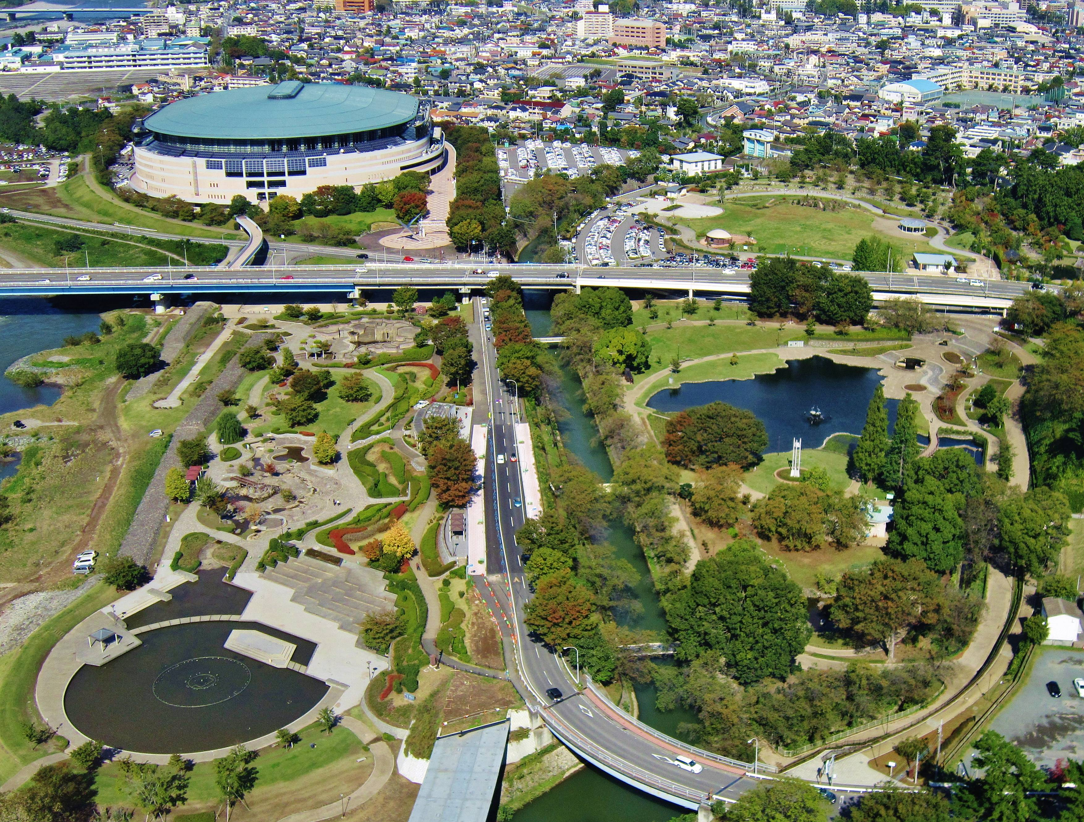 Maebashi Park, view from Gunma Prefectural Government Building (Maebashi, Gunma)..